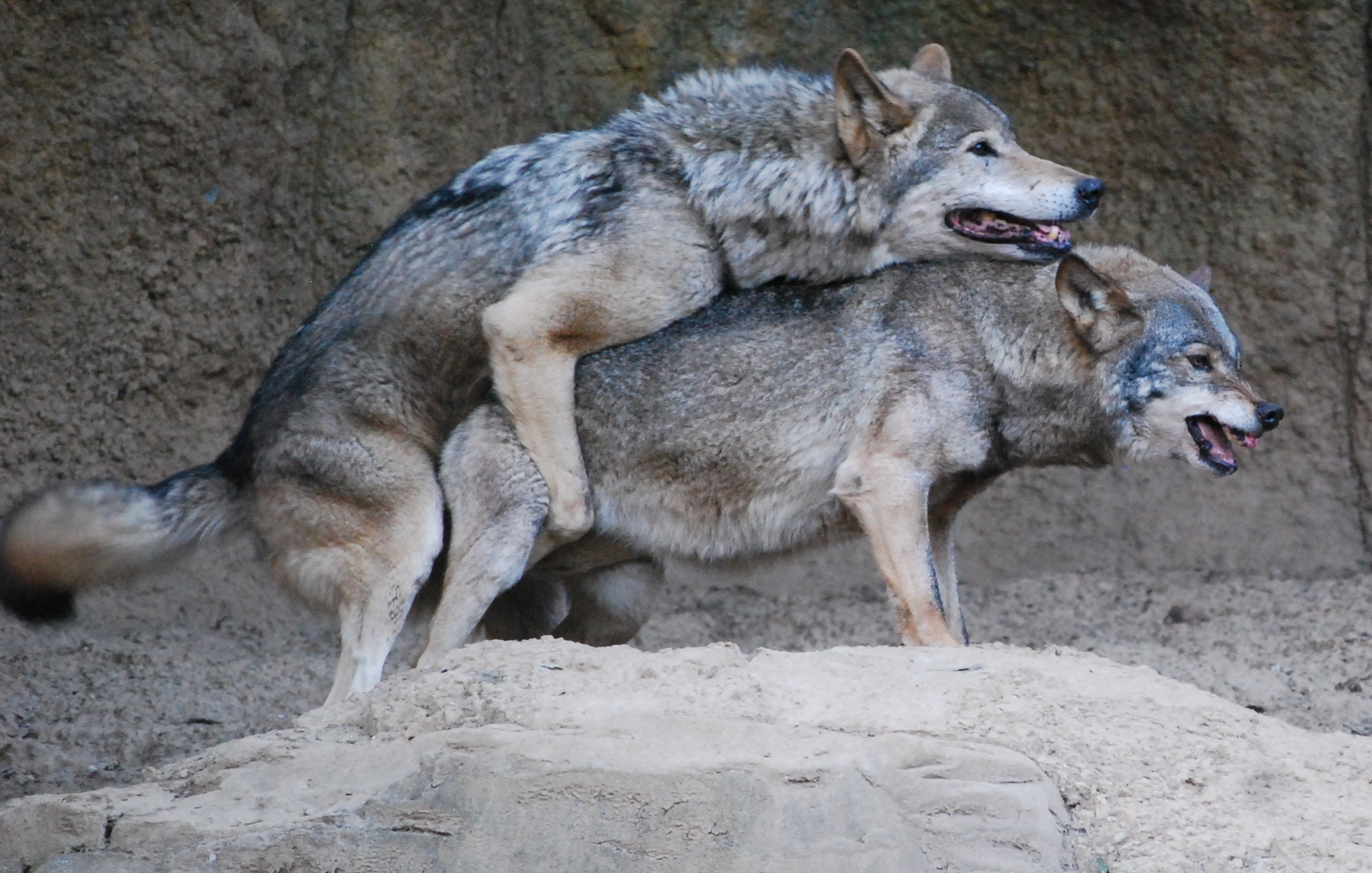 Korean wolves mating at the Tama Zoo